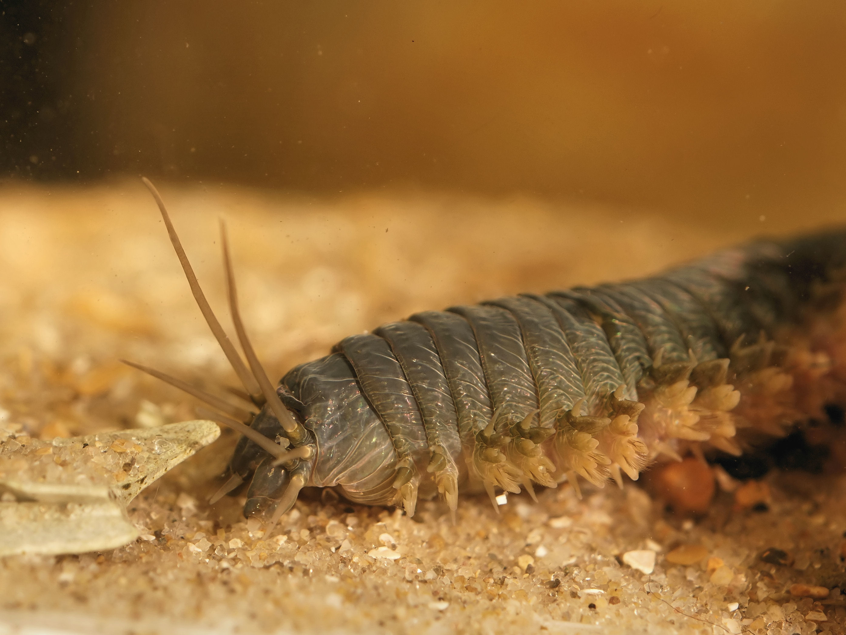 King ragworm. Geo-location not applicable as the picture was taken in the lab.